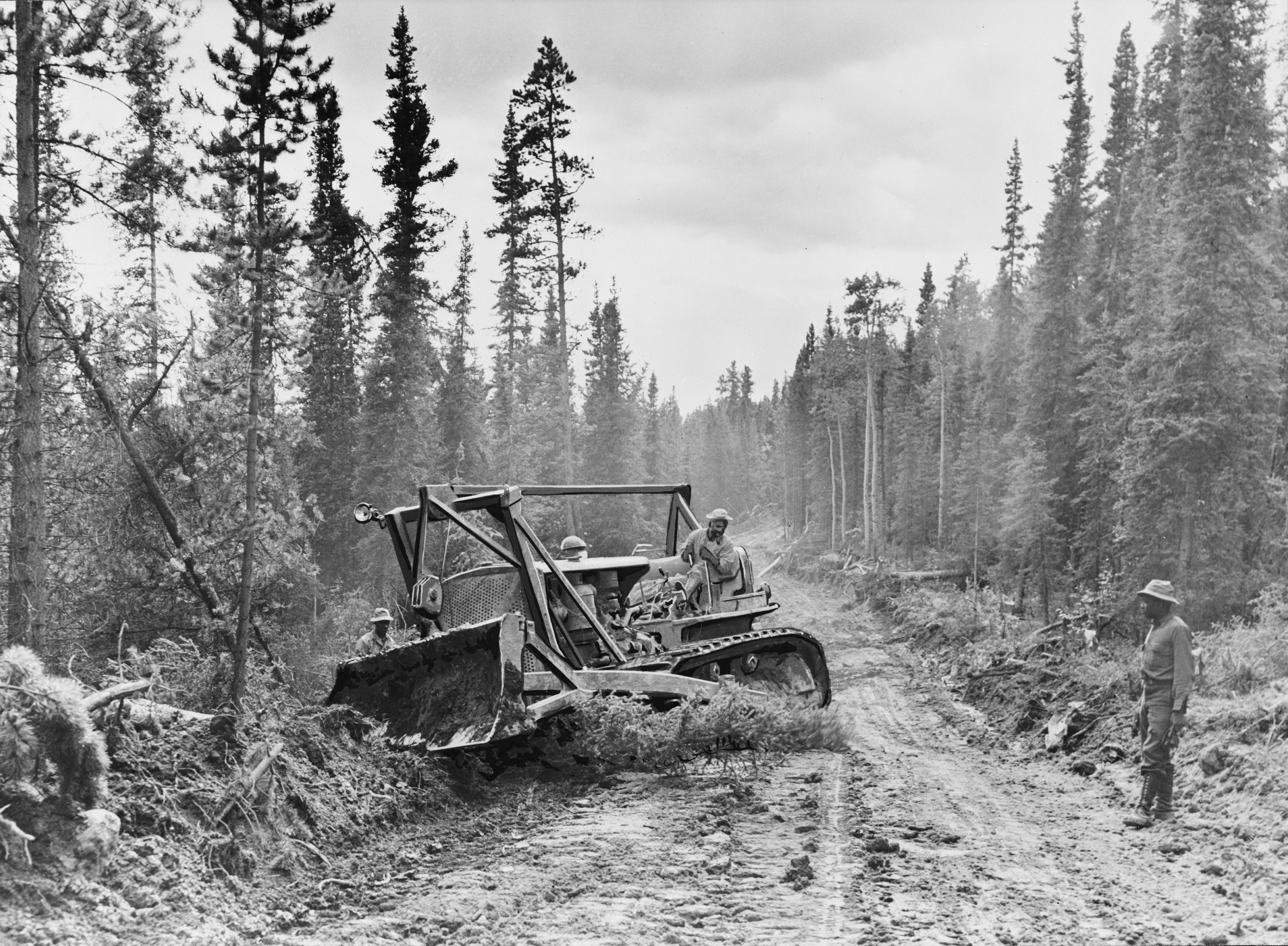 Caterpillar tractor with grader widening the roadway of the Alcan Highway.